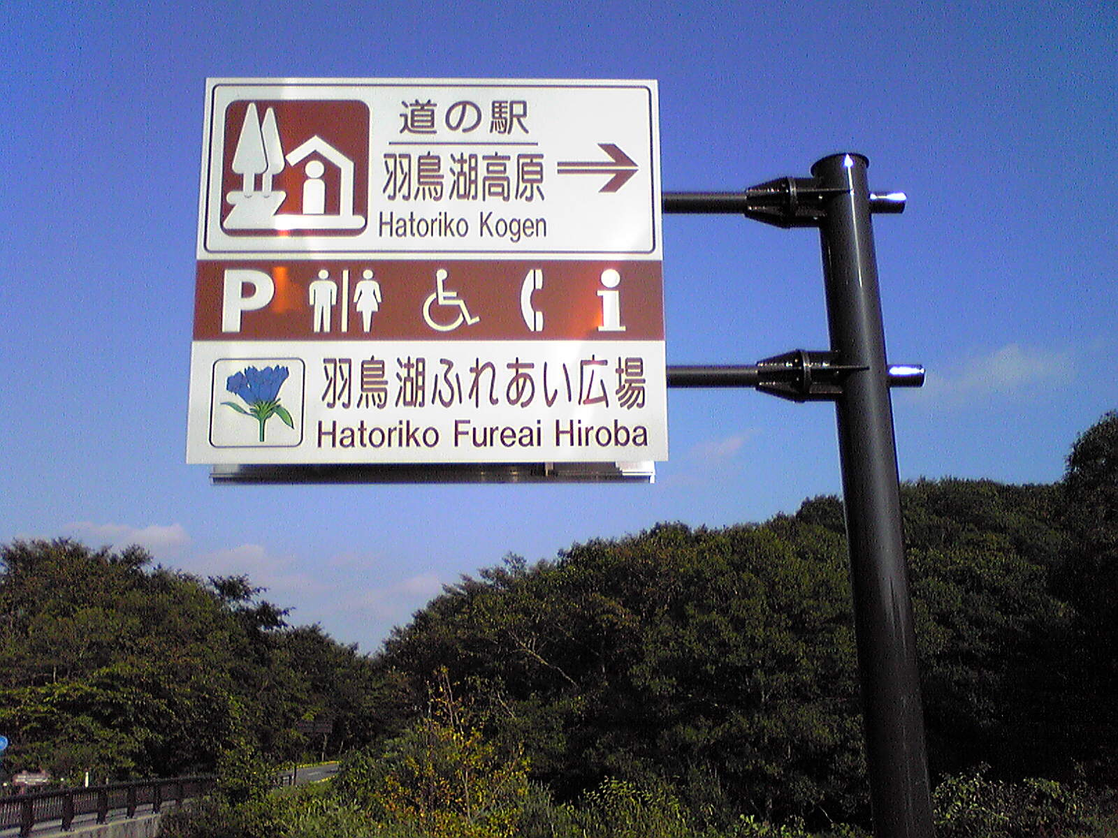 Road sign for Michinoeki Hatoriko Kogen in Ten-ei Village, Fukushima Prefecture, Japan